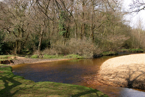 Avon Water. Near Set Thorns Inclosure in the New Forest